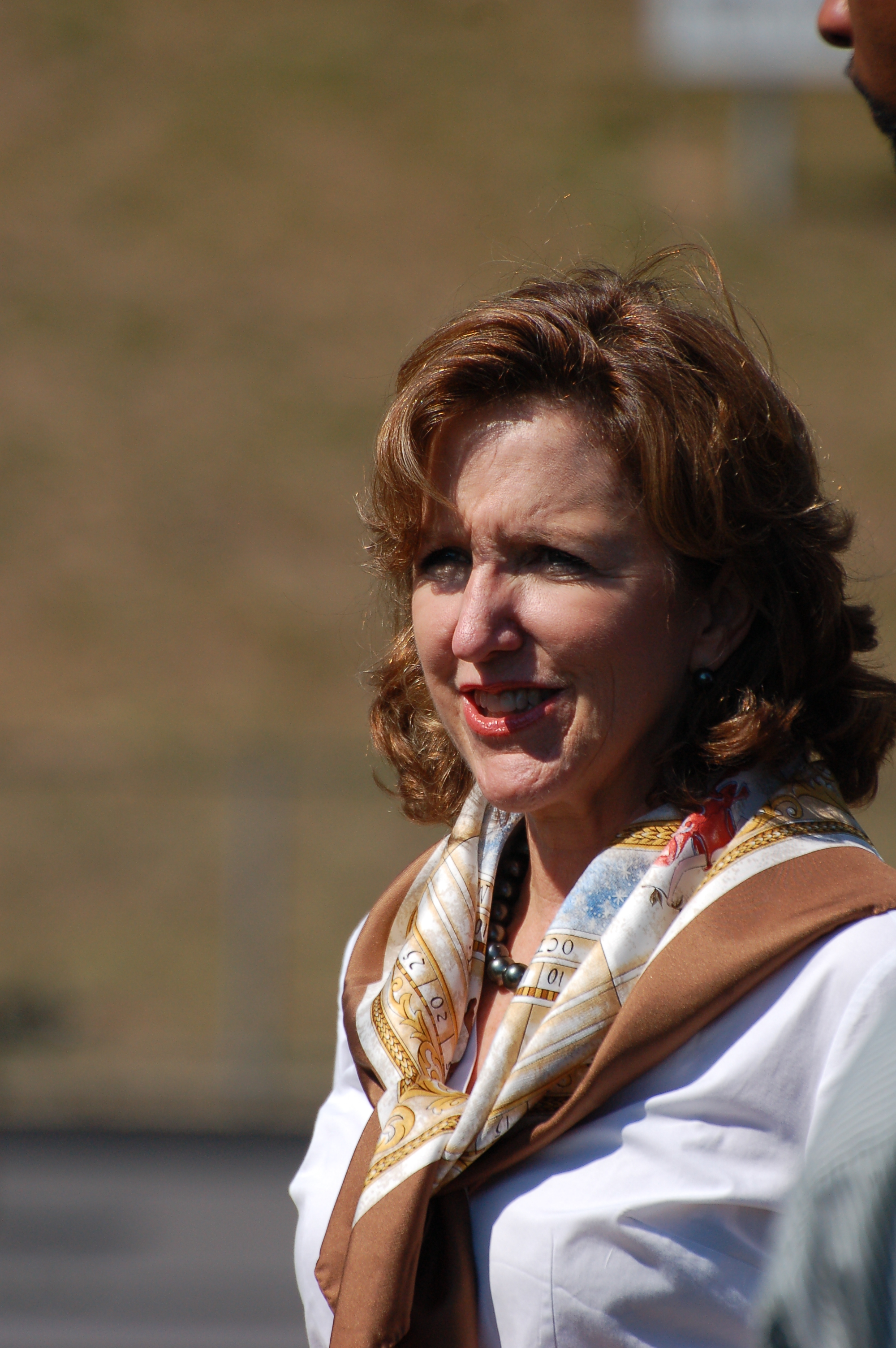 Kay Hagen, who was elected as a Senator for North Carolina in 2008, attending a Barack Obama rally